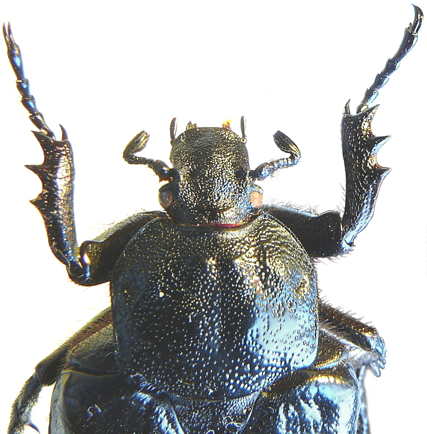 caput and pronotum of a female Osmoderma eremita